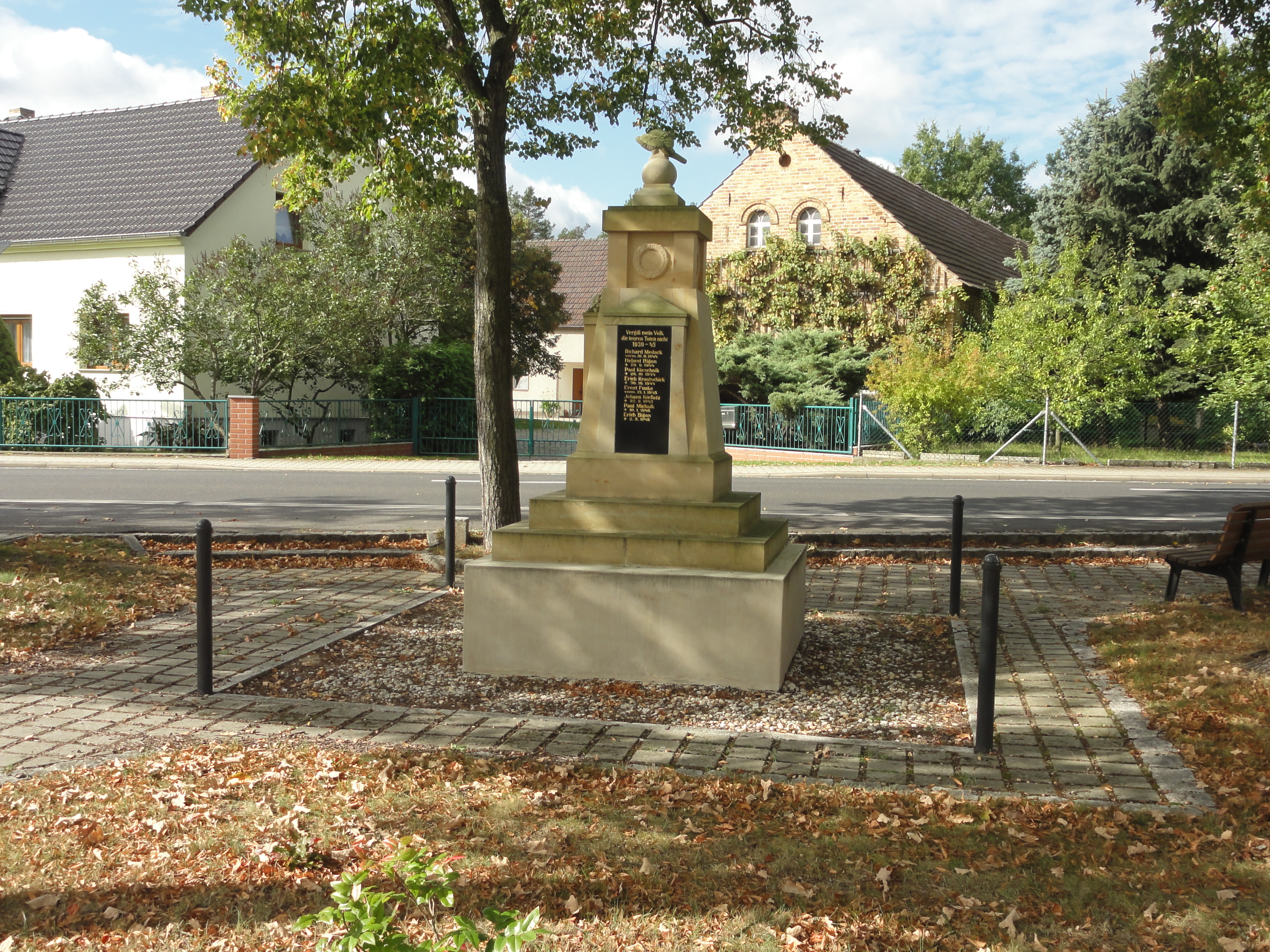 Memorial to the fallen soldiers of both World Wars in Kringelsdorf; cultural heritage No. 09277032; for inscriptions see the article Gefallenendenkmal Kringelsdorf